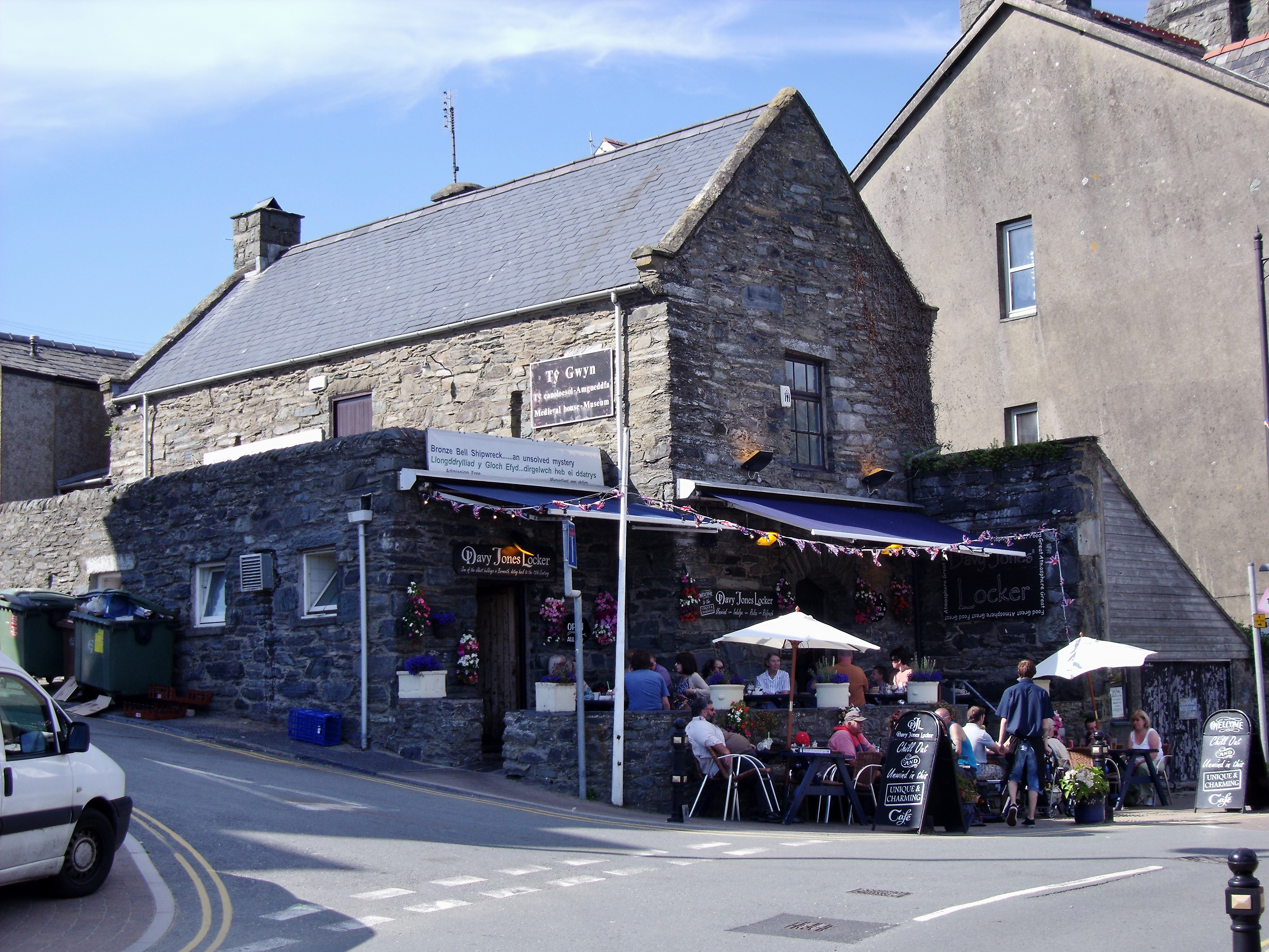 In 1565, there were only four houses in Barmouth and Ty Gwyn (White House) was one of them. It is now the oldest building in Barmouth appearing in any archive record and fittingly it occupies a key location down at the harbour. Built by Gruffydd Fechan of Cors y Gedol between 1460-1485, Ty Gwyn features a late 15th century floor hall. History has it that Jasper Tudor, the uncle of the first Tudor king, Henry VII hid up in Ty Gwyn during the Wars of the Roses.